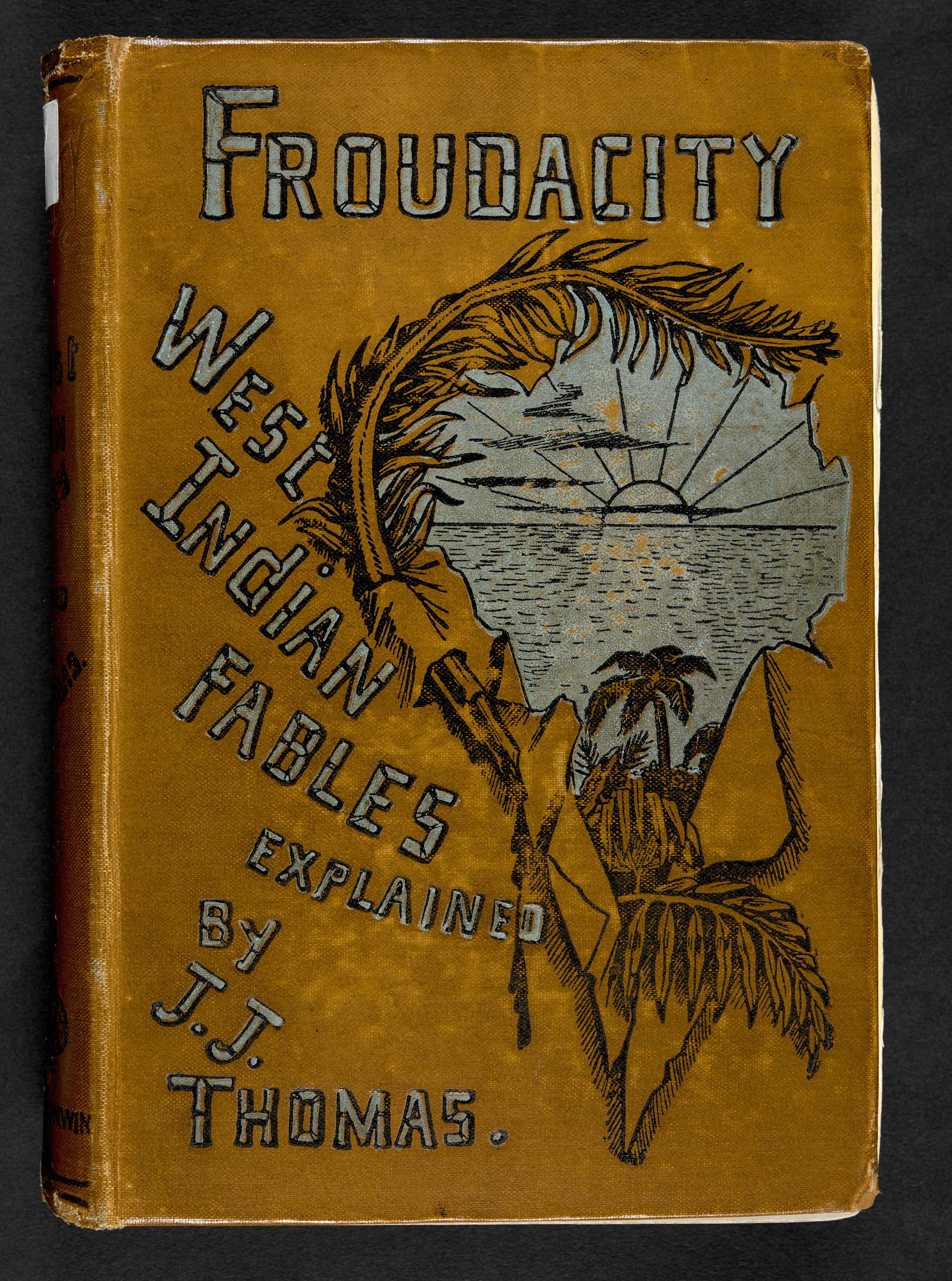 front cover of Froudacity by J J Thomas. Published in 1889. Full title: Froudacity. West India fables by J. A. Froude explained by J. J. Thomas. [A reply to “The English in the West Indies,” by J. A. Froude.] Published: 1889, London Publisher: London: T. Fisher Unwin Held by British Library Shelfmark: 10470.e.26